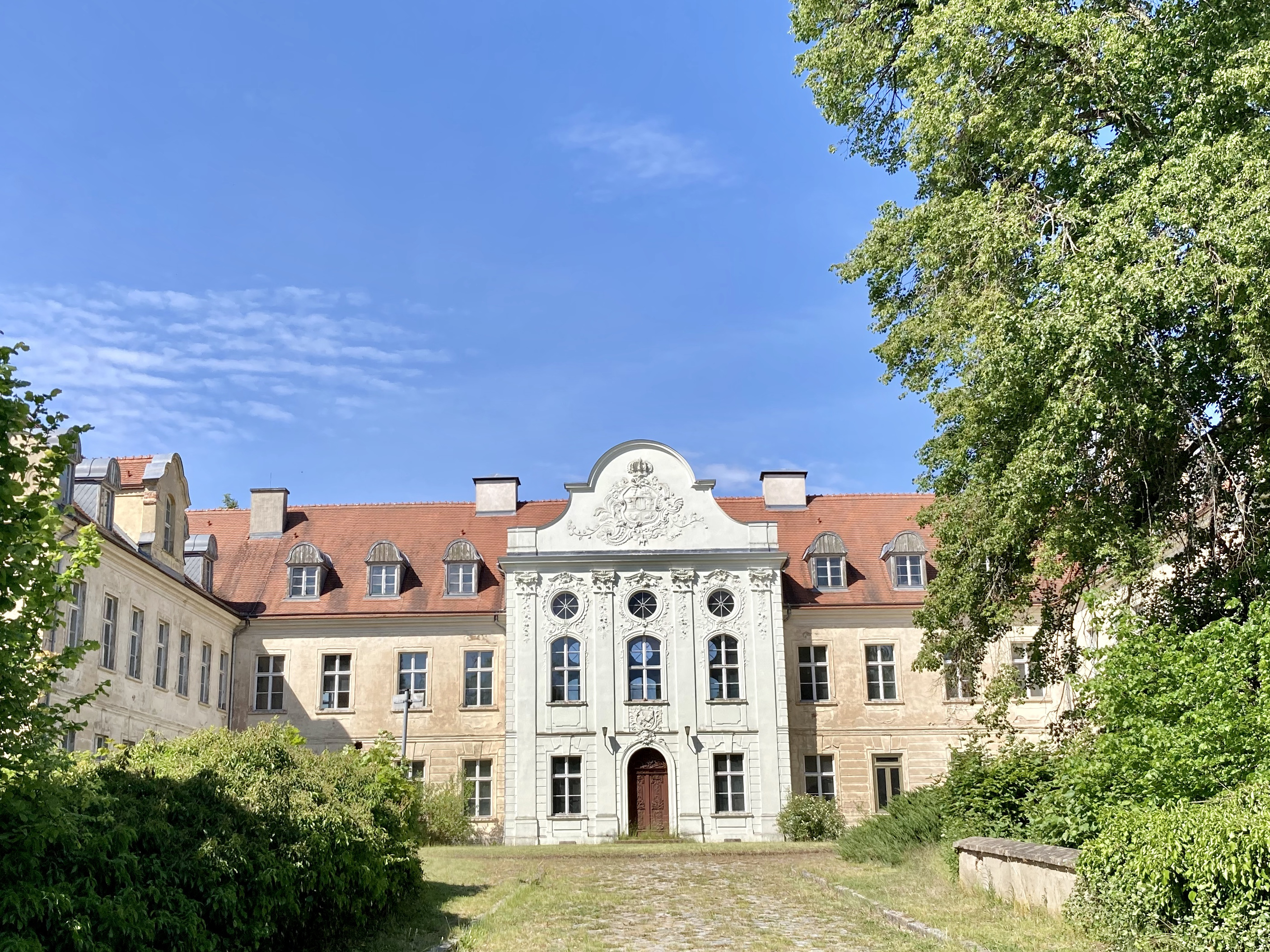 East facade of the baroque palace of Fürstenberg/Havel, Germany, built from 1741 to 1752.